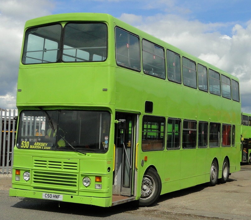 BrightBus bus 6050 (reg. C50 HNF), a 1986 Leyland Olympian double-decker with Alexander RH bodywork, pictured leaving their North Anston depot to work the 3.03pm school bus service No. 530 from Don Valley High School to Marsh Lane in Arksey. It's a high capacity tri-axle 12m long bus, delivered new to Hong Kong operator Kowloon Motor Bus as their fleet no. 3BL149 (reg. DJ 3052). See Second-hand Hong Kong tri-axle buses imported to the United Kingdom for a full vehicle history.